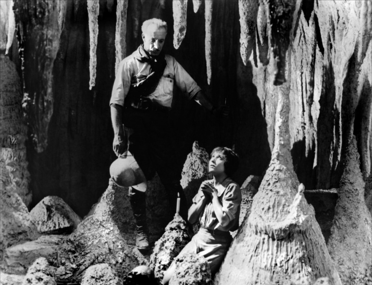 Lewis Stone and Bessie Love in The Lost World - cropped screenshot